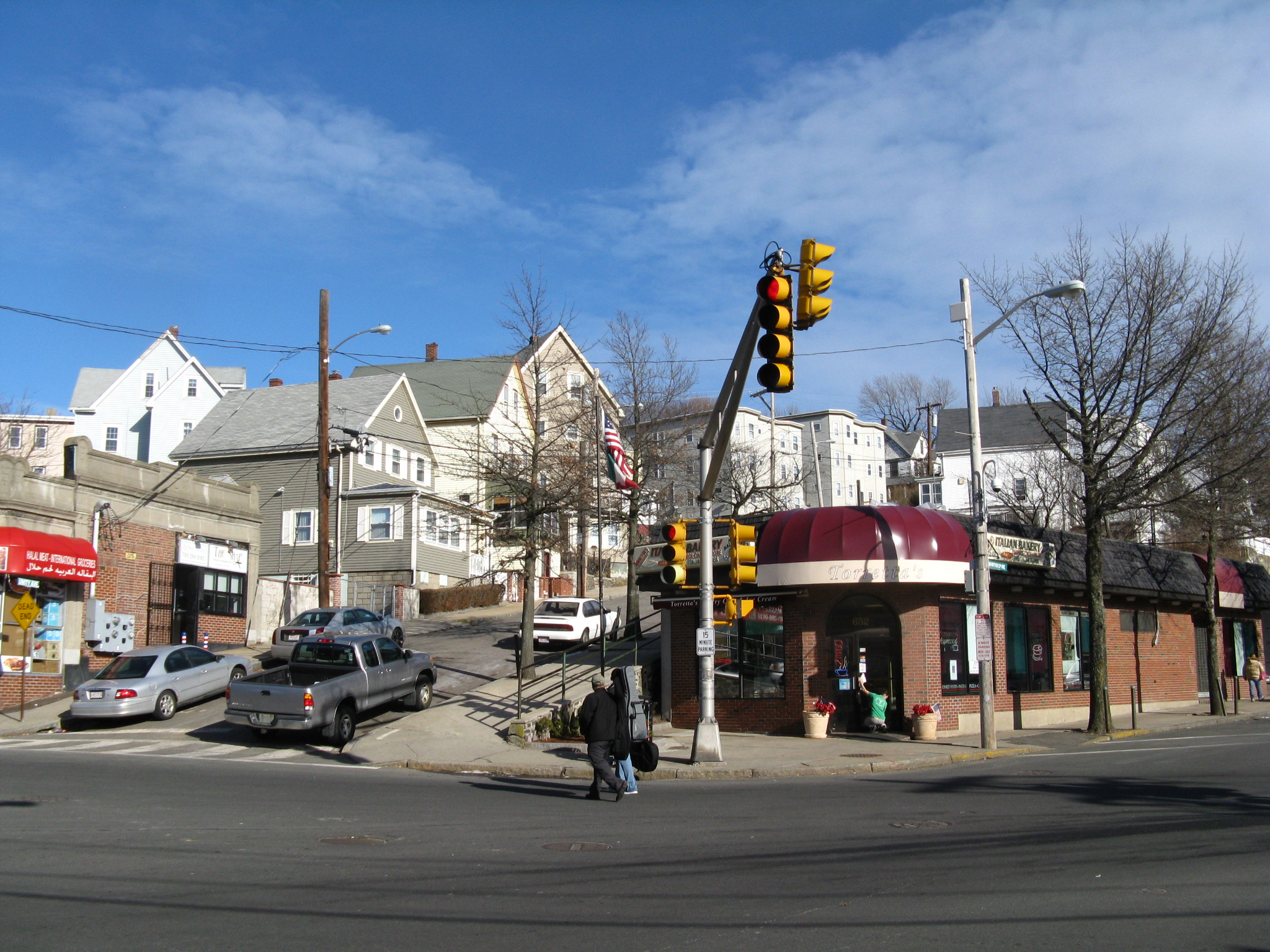 Beachmont at the corner of Bennington St and Winthrop Ave, Revere Massachusetts